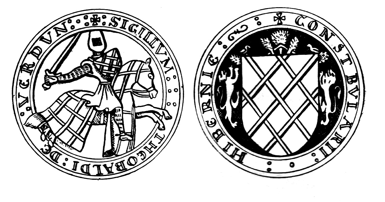 Seal of Theobald de verdun, around 1250